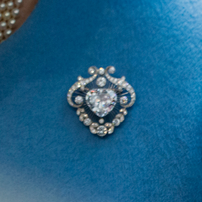 The Cullinan V brooch as worn by Queen Elizabeth II on her visit to Home Office HQ in 2015.